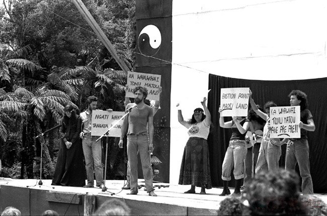 Bastion Point activist campaign at Nambassa alternatives festival 1981. Nambassa 2002- Image (photograph) taken by Official Nambassa Photographer and uploaded by (Mombas 01:53, 10 July 2006 (UTC)). Nambassa dot com Terms of Use: 1/ All users of this image are required to attribute this work to "Nambassa Trust and Peter Terry" and the url: " " is to accompany all use. 2/ Attribution. You must attribute the work in the manner specified by the author or licensor. 3/ For any reuse or distribution, you must make clear to others the license terms of this work. Statement by Nambassa Trust and Peter Terry